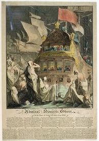 Edition of poem Admiral Hosier's Ghost. The Ghost of Hosier appears to Edward Vernon as he rests at anchor after his victory..